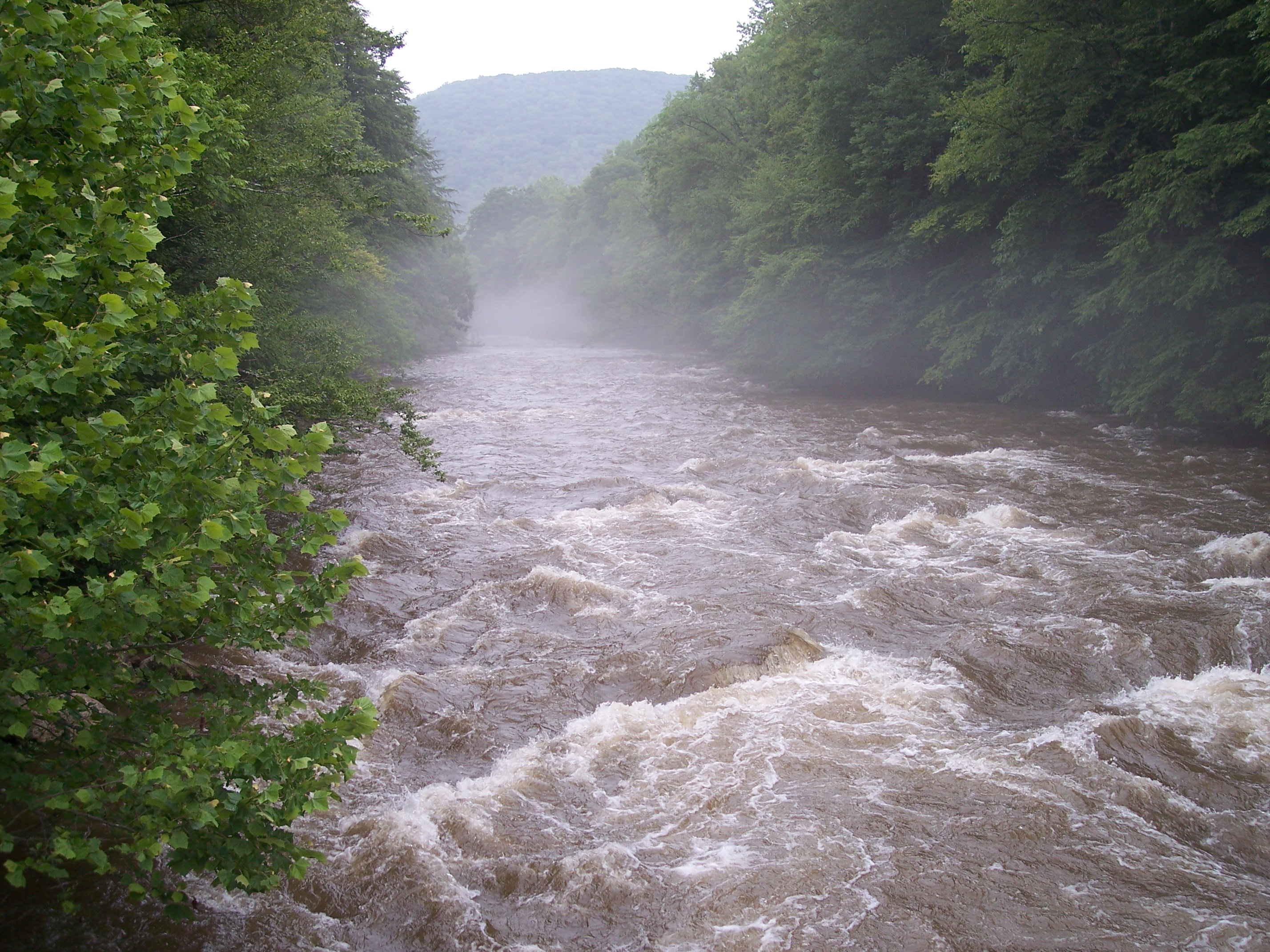 The Cranberry River as viewed from a bridge on Forest Road 76 near Big Rock Campground in the Mongahela National Forest in Nicholas County, West Virginia. The river was running high and fog was hovering above it following heavy summer rains.